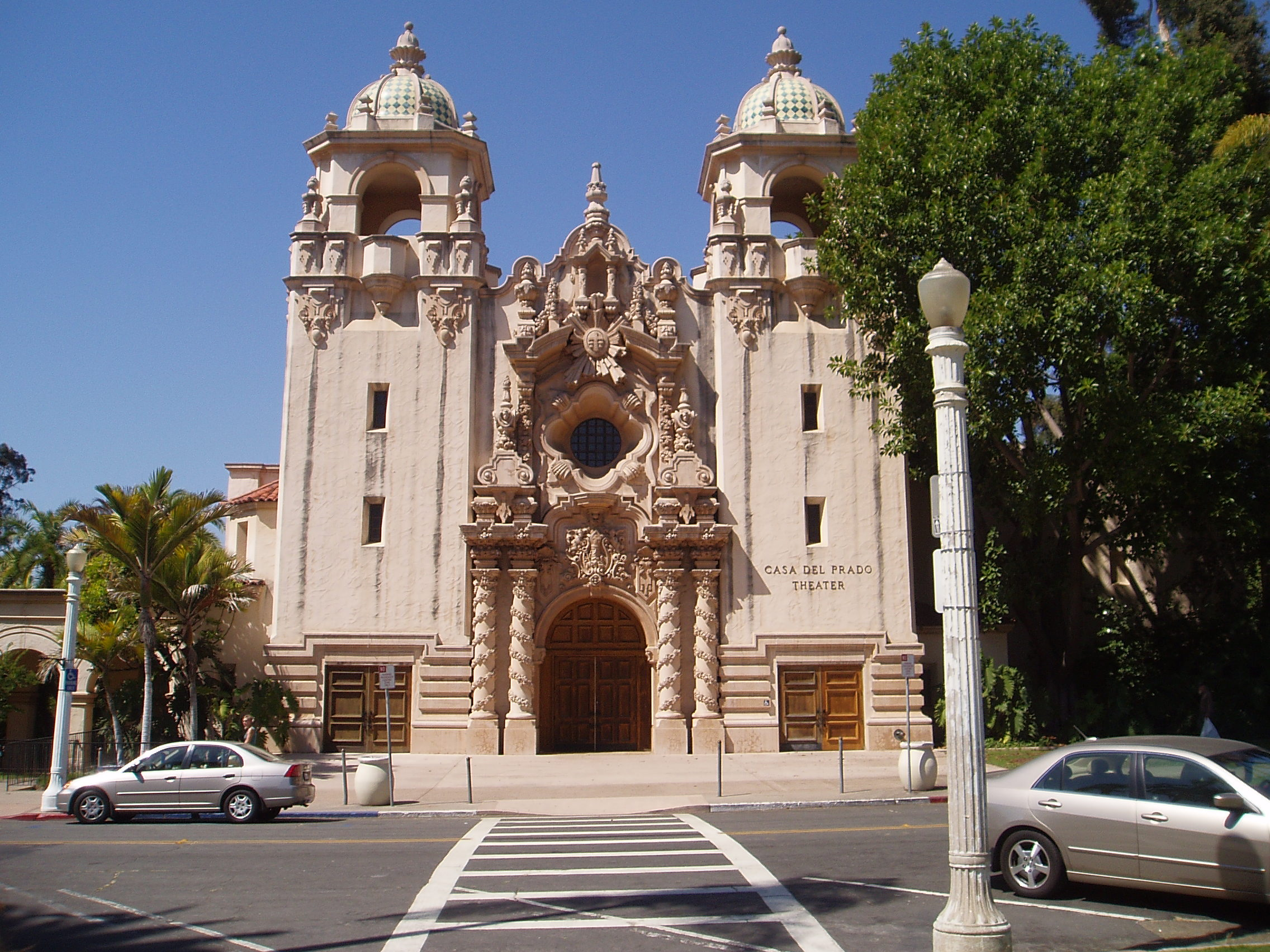 Balboa Park